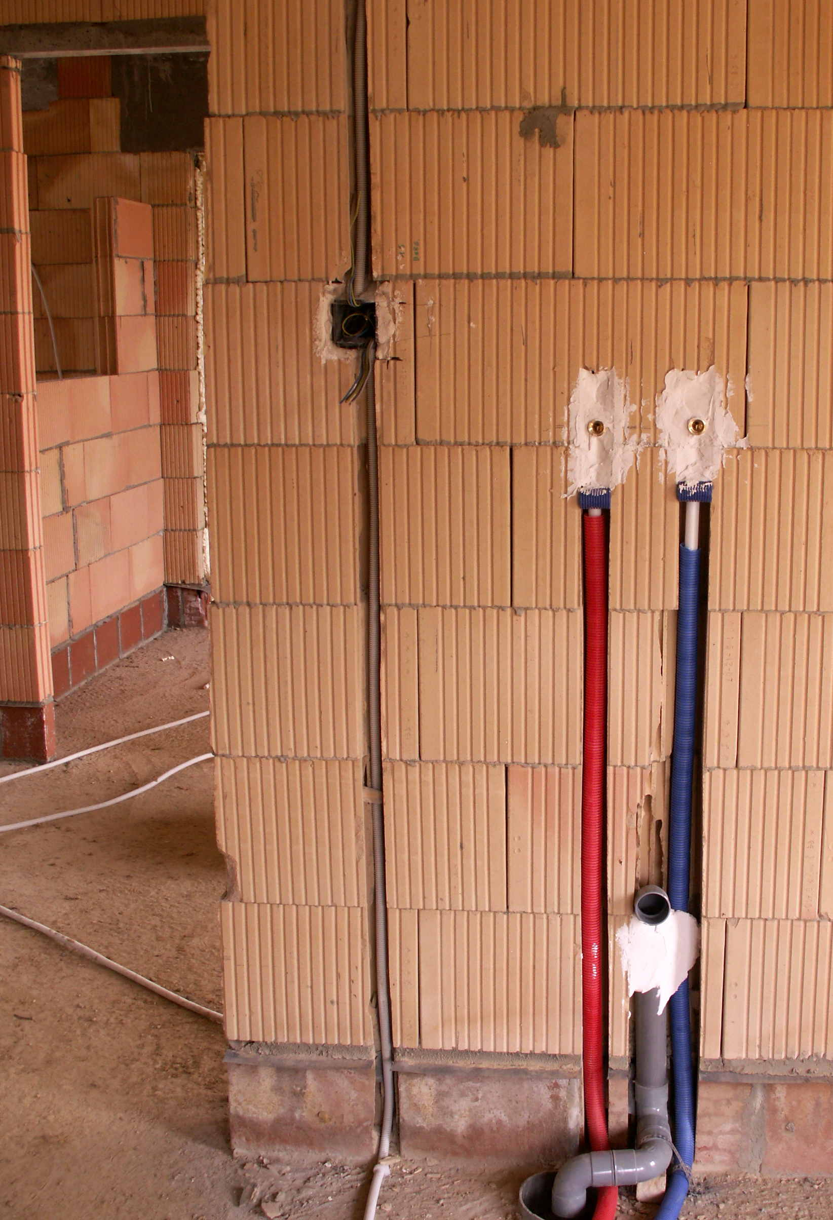 The hot/cold water inlets of a sink, before its installation. The plastic red/blue covering around the white tube is used simply to indicate whether the tube carries hot or cold water. The inner white tube is about 1 cm wide. The grey pipe is the drainage pipe. All cabling in this house is plastic; but these cables are still environmentally polluting (and not so very long lasting, nor repairable when broken) and copper and galvanized steel are better options (although these may not be as clearly marked in red/blue). Much smaller than the water tubing is the plastic electricity tubing, at left.